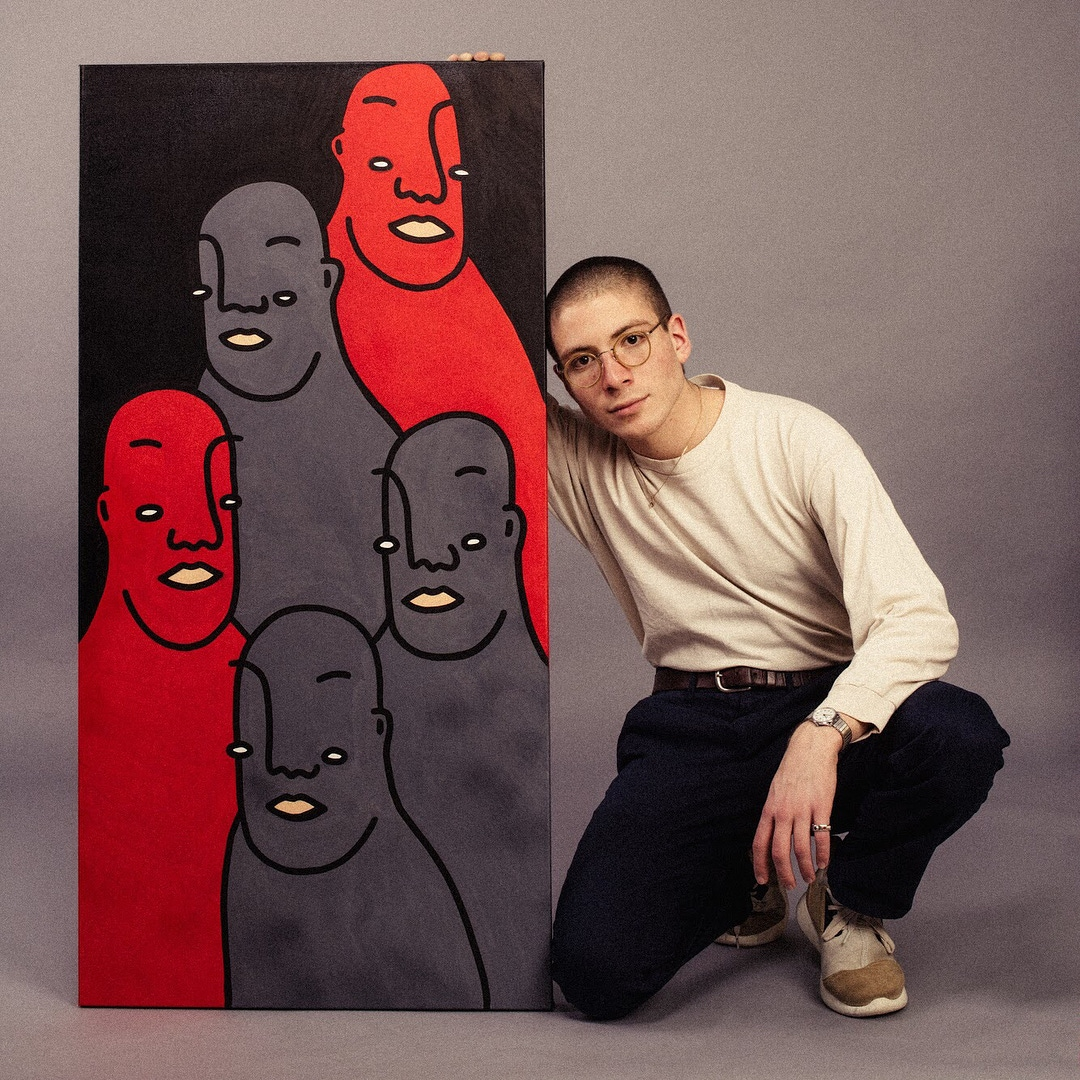 Danny Cole for Milk by Ant Soulo in 2018